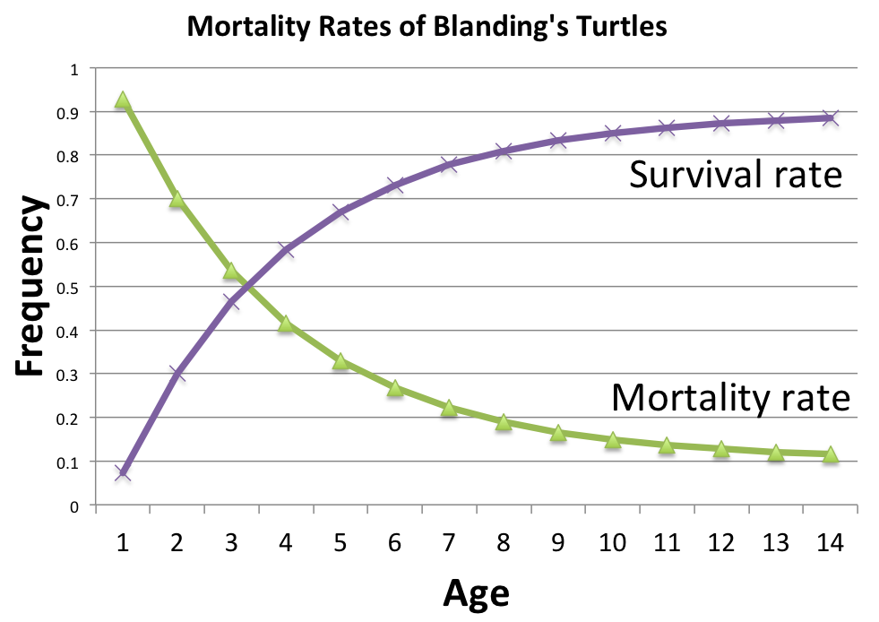 The survival rates of Blanding's turtles from a young juvenile age to adulthood